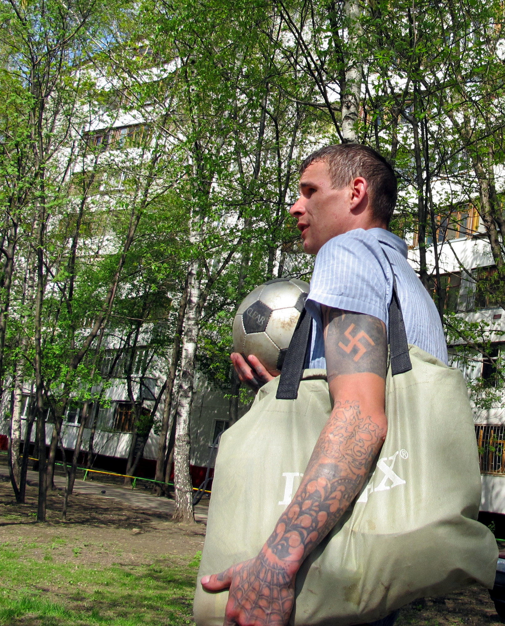 Victory Day (2013-05-09) in Moscow. A man with a swastika tattoo.